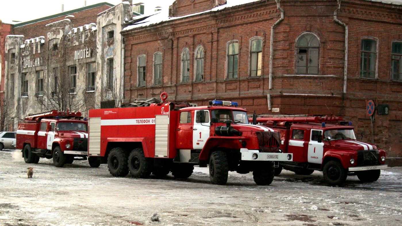 Fire engines Ural and ZIL in Biysk